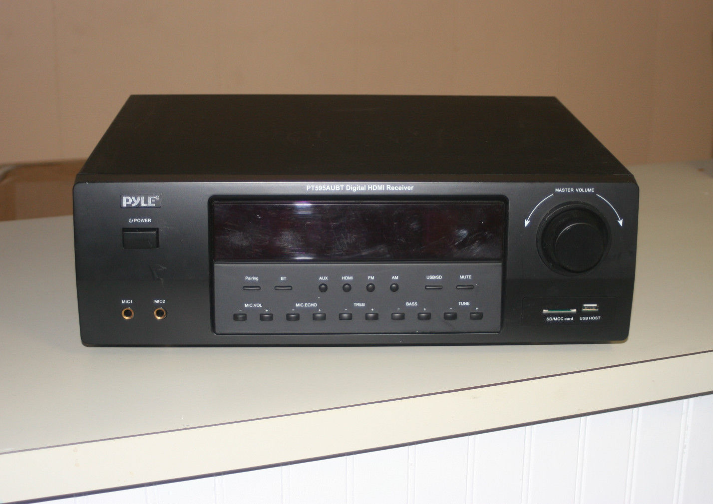 Pyle PT272AUBT 2 Channel Power Amplifier